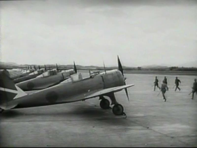 Nakajima Ki-27 from "Kato hayabusa sento-tai (Colonel Kato's Falcon Squadron)".